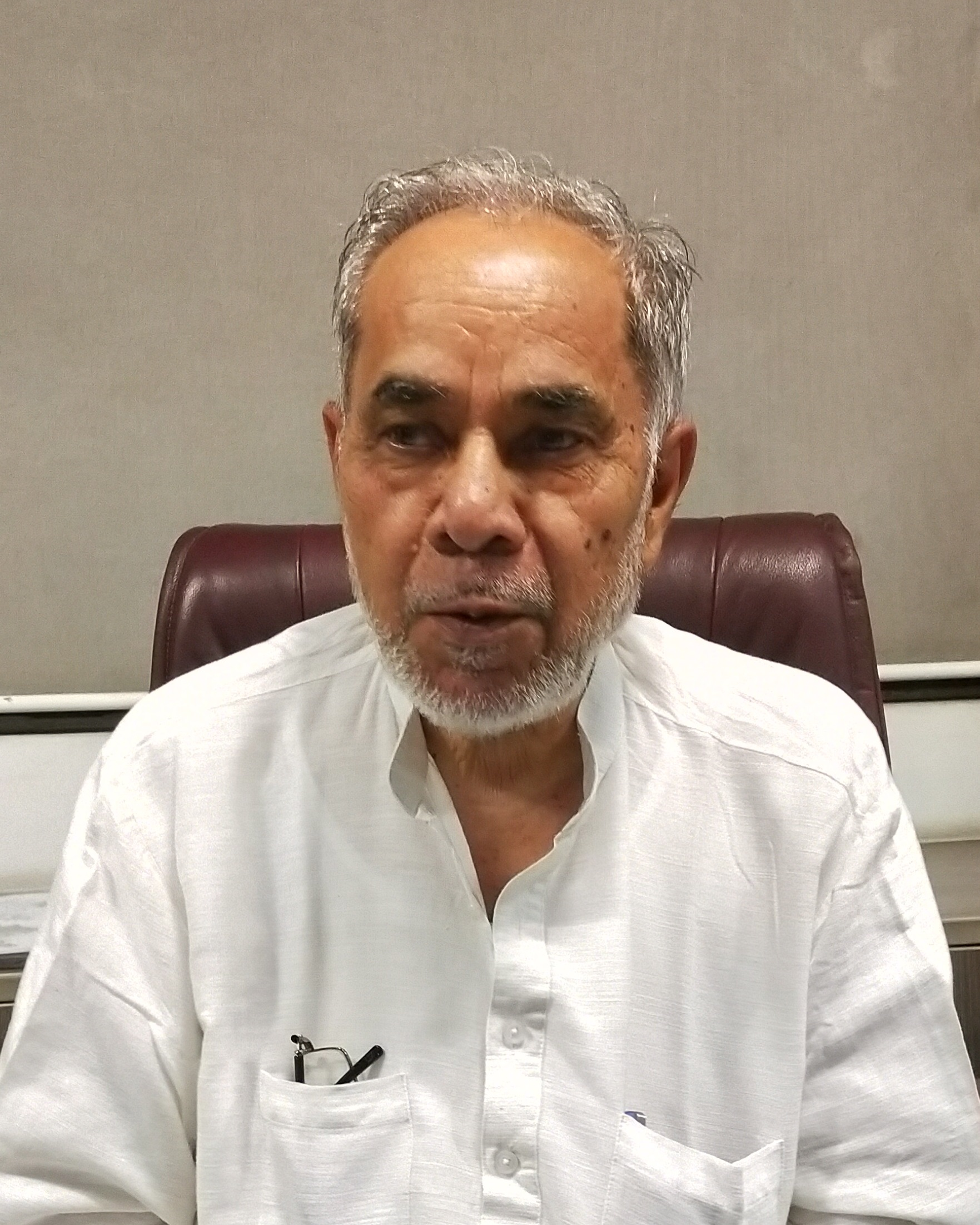 Ram Bahadur Rai